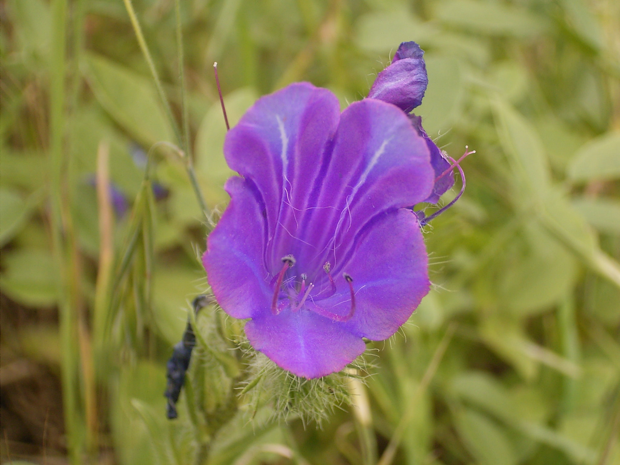 Echium plantagineum growing in El Paso, La Palma, Canary Islands